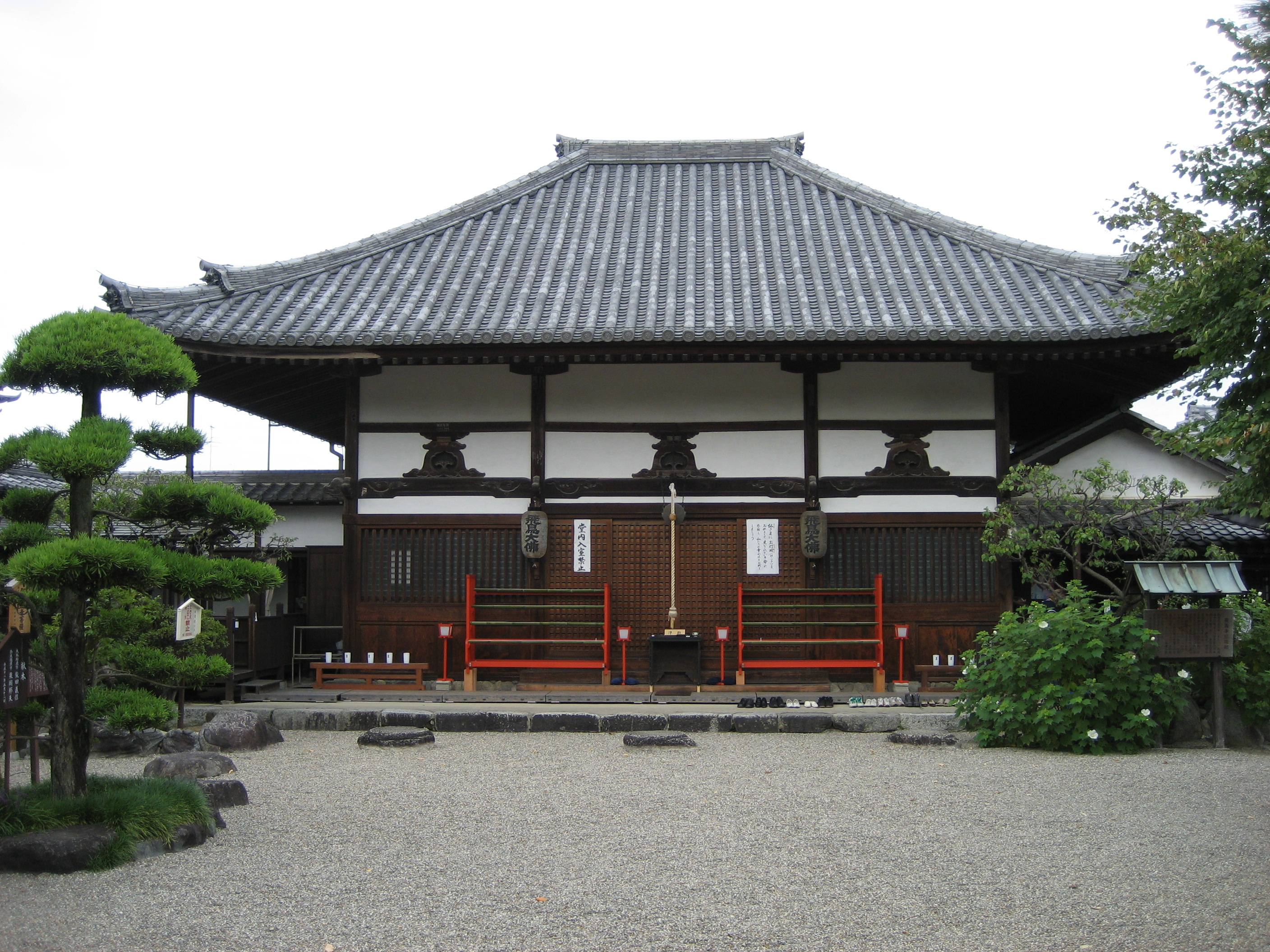 Front of main building at Asuka-dera